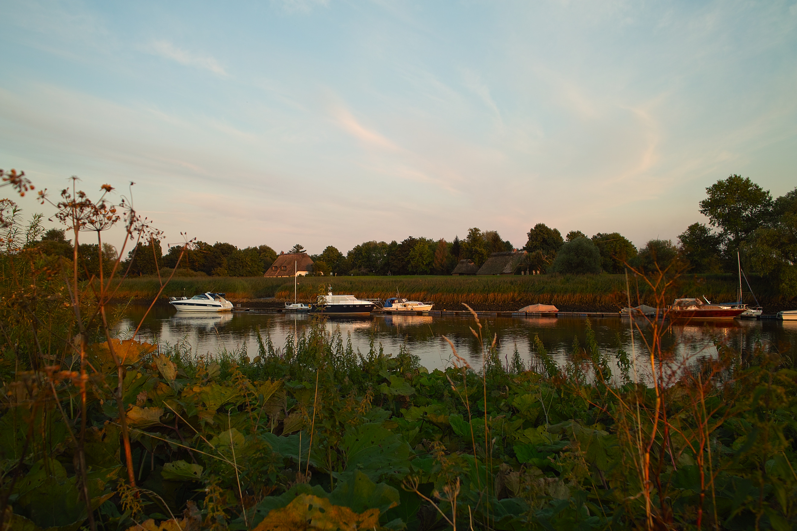 the river Lesum in the evening light